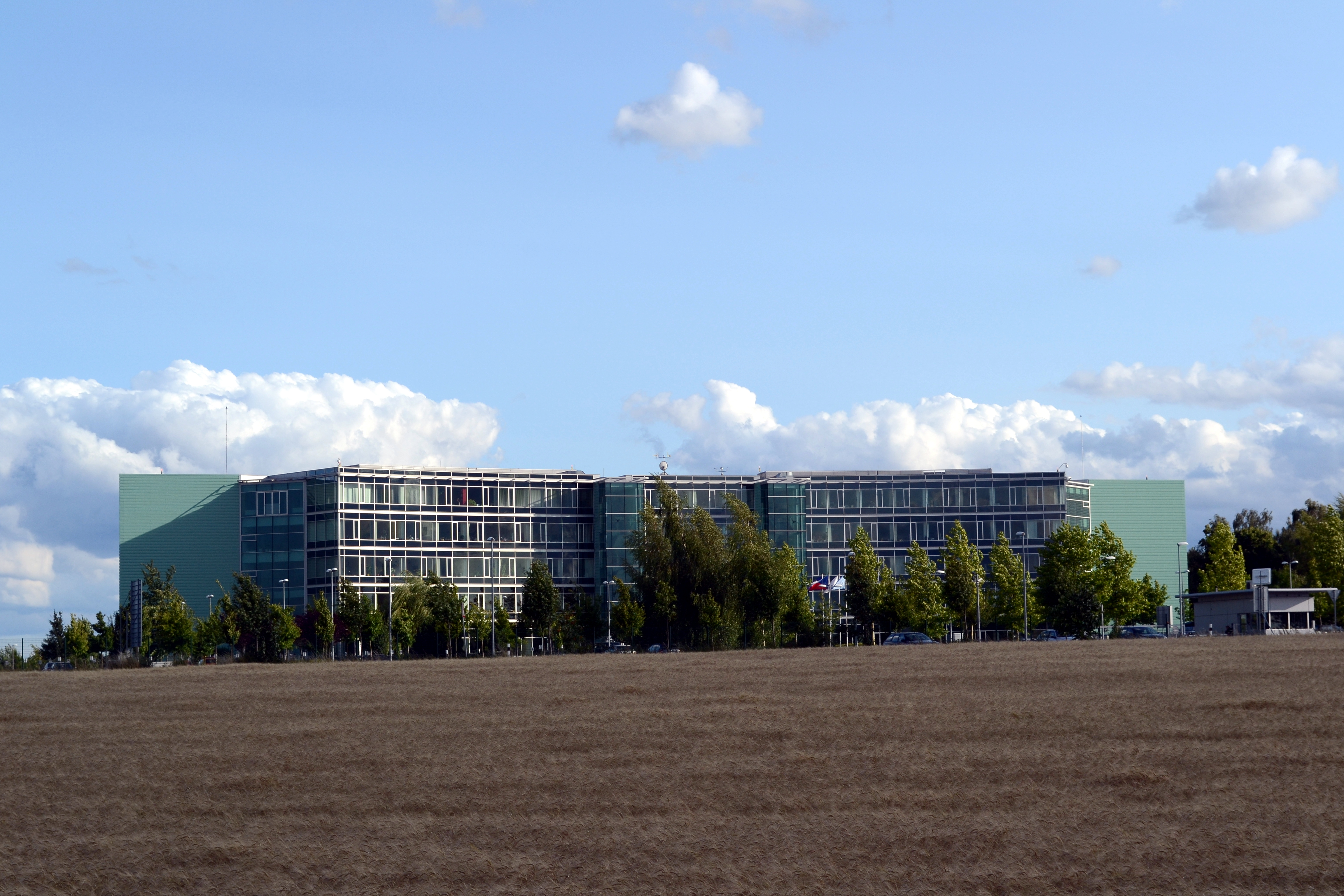 Air traffic control building in Jeneč, Central Bohemian Region, Czech Republic.